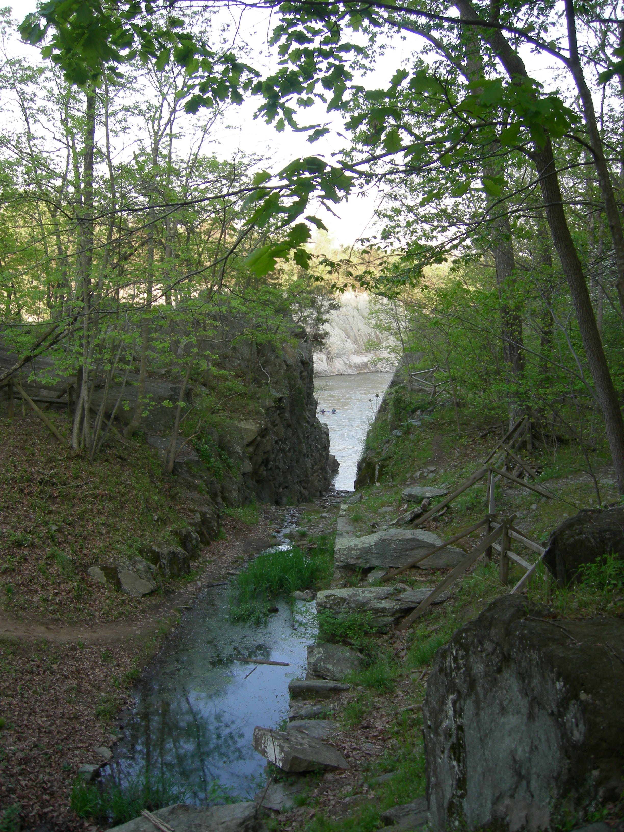 The entrance of the Patowmack Canal below the Great Falls of the Potomac River in the Mather Gorge. This "canal cut" was one of the earliest uses of black powder blasting in the country. There were several locks in quick succession to bring boats up towards the top of the cliff.